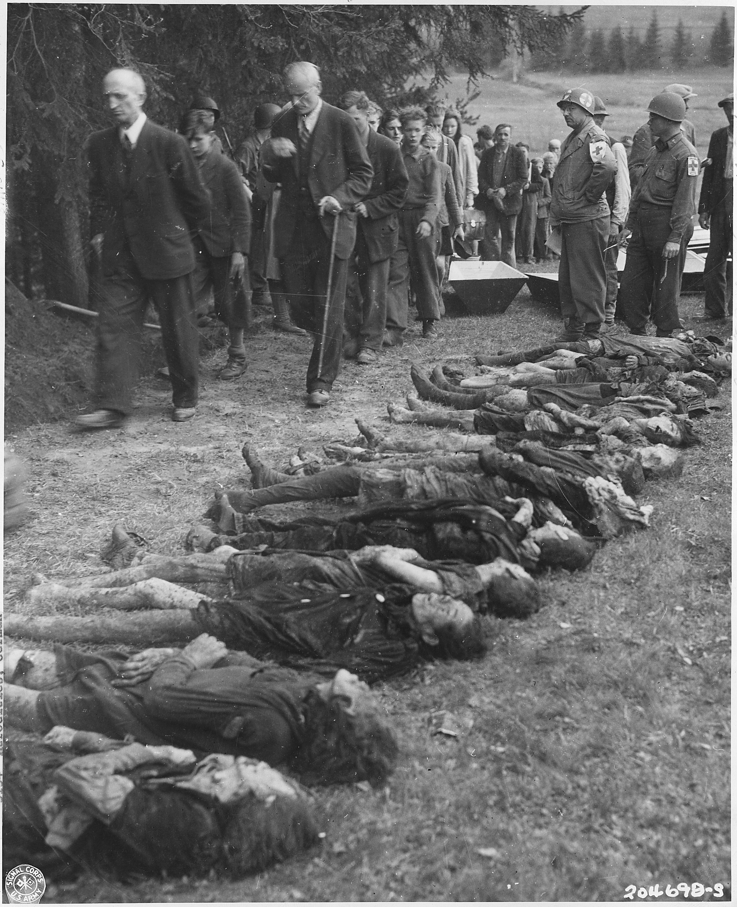 Scope and content: German civilians are forced to walk past bodies of 30 Jewish women starved to death by German SS troops in a 300 mile march across Czechoslovakia. Buried in shallow graves in Volary, Czechoslovakia, the bodies were exhumed by Gernan civilians working under direction of Medics of 5th Infantry Division, U.S. Third Army. Bodies will be placed in coffins and reburied in cemetery in Volary. 5th Med. Bn., 05/11/45.